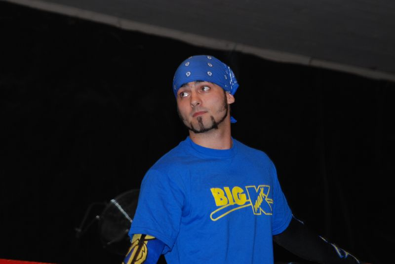 Mack soaks up the love.